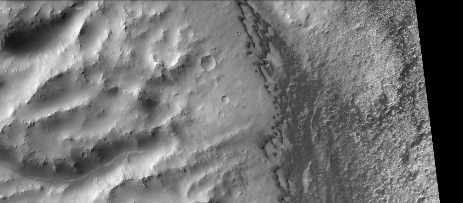 Dawes Crater showing portion of eroded wall and floor with dunes, as seen by CTX.